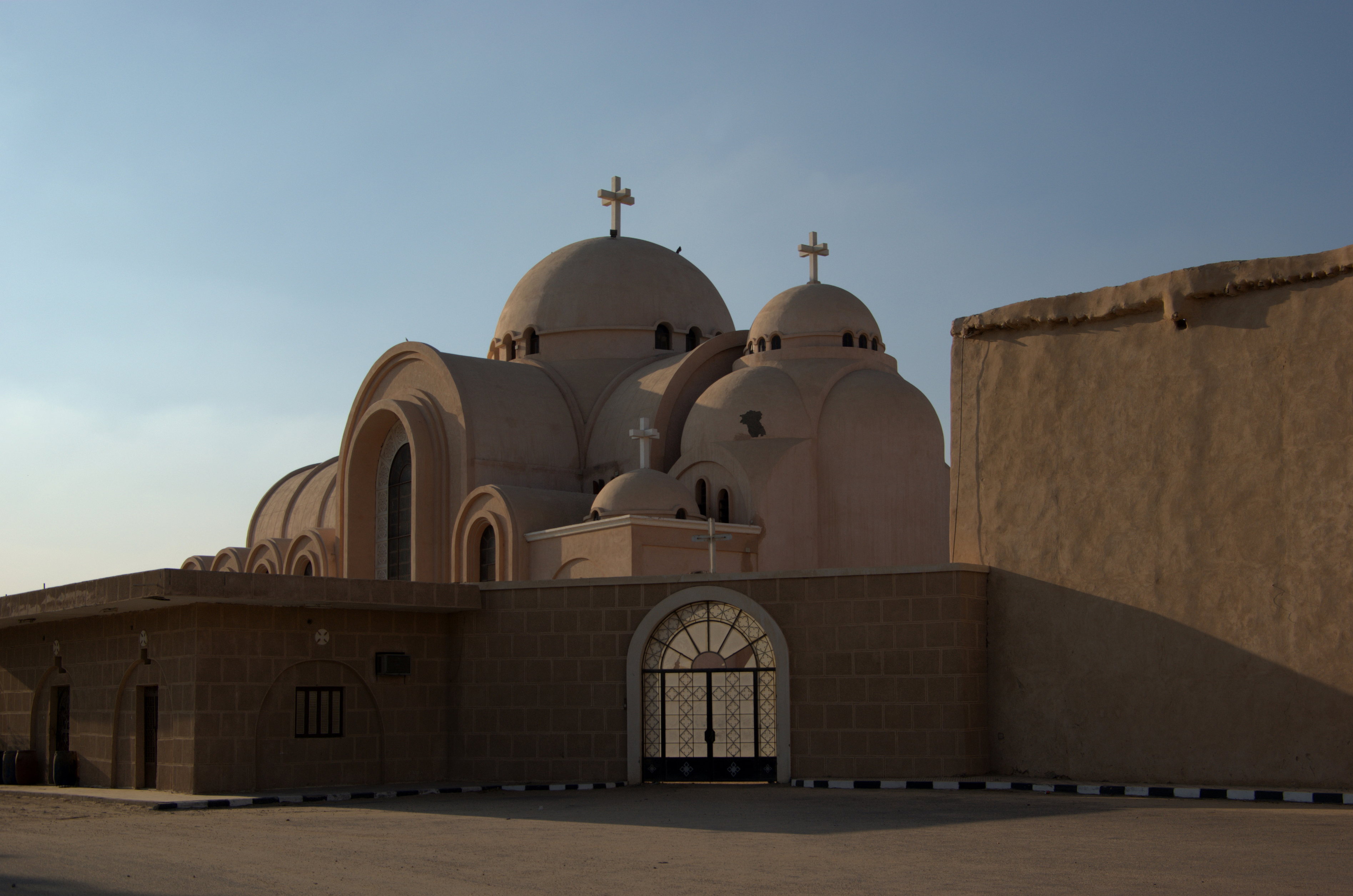 Monastery of Saint Bishoy, Wadi Natrun